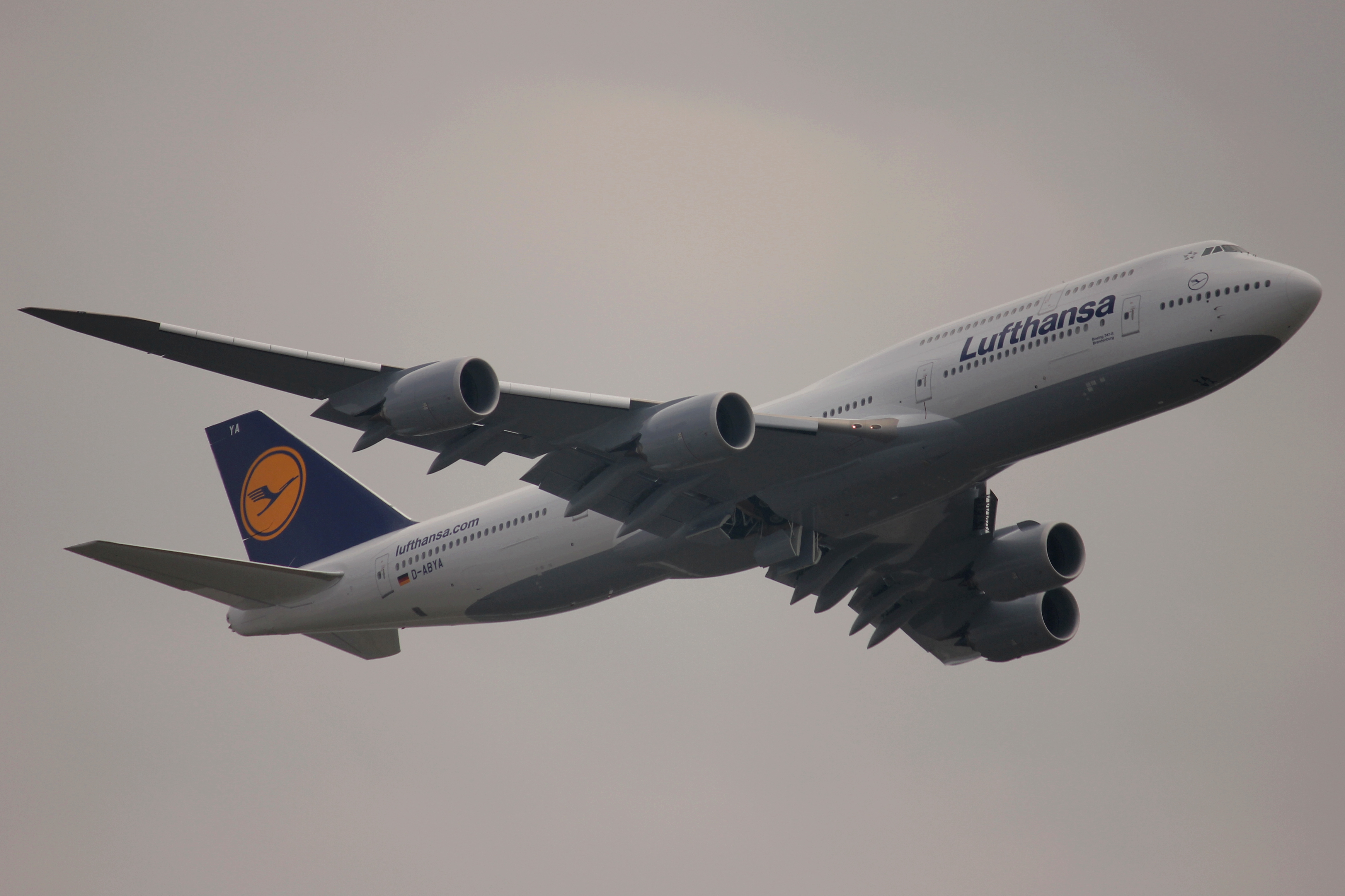 Lufthansa 747-8I takes off at Frankfurt intl. Airport